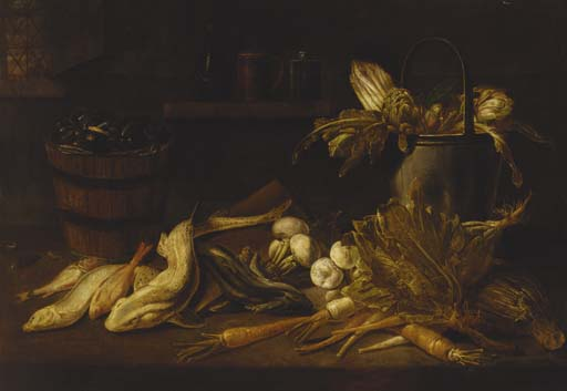 A barrel of mussels, a dogfish and other fish with turnips, carrots, a cabbage and a bucket with artichokes and asparagus on a ledgelabel QS:Len,"A barrel of mussels, a dogfish and other fish with turnips, carrots, a cabbage and a bucket with artichokes and asparagus on a ledge"